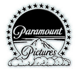 Hodkinson first designed the Paramount logo in 1914. Legend has it that he doodled an image of a star-crested mountain on a napkin during a meeting with Adolph Zukor. It was an image he remembered of a mountain peak from his childhood in Ogden, Utah, almost certainly the 9,712-foot-high Ben Lomond Mountain (Utah).